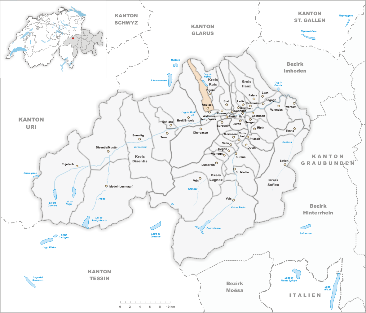 Municipality Andiast